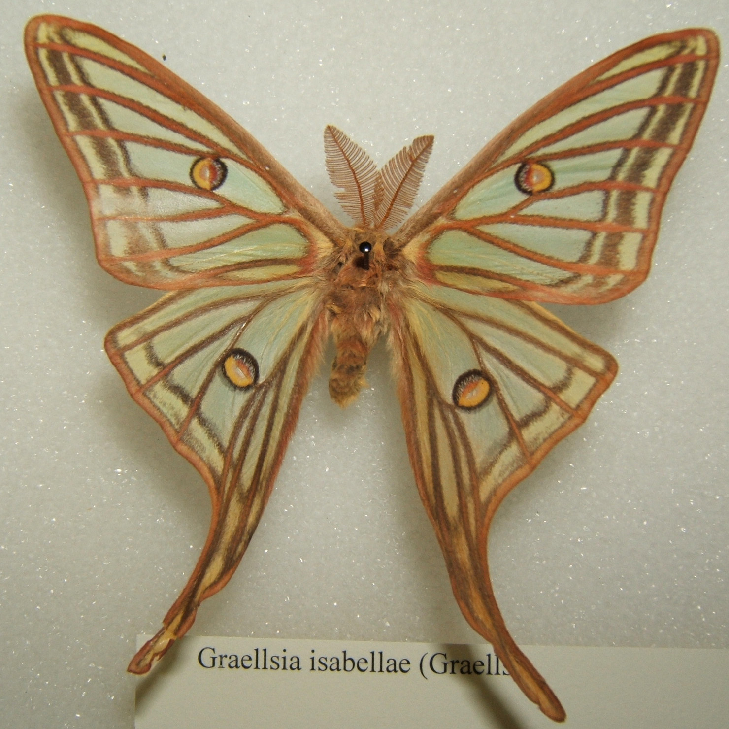 Graellsia isabellae adult male taken by Shawn Hanrahan at the Texas A&M University Insect Collection in College Station, Texas.